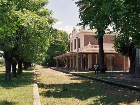 Villars Train Station